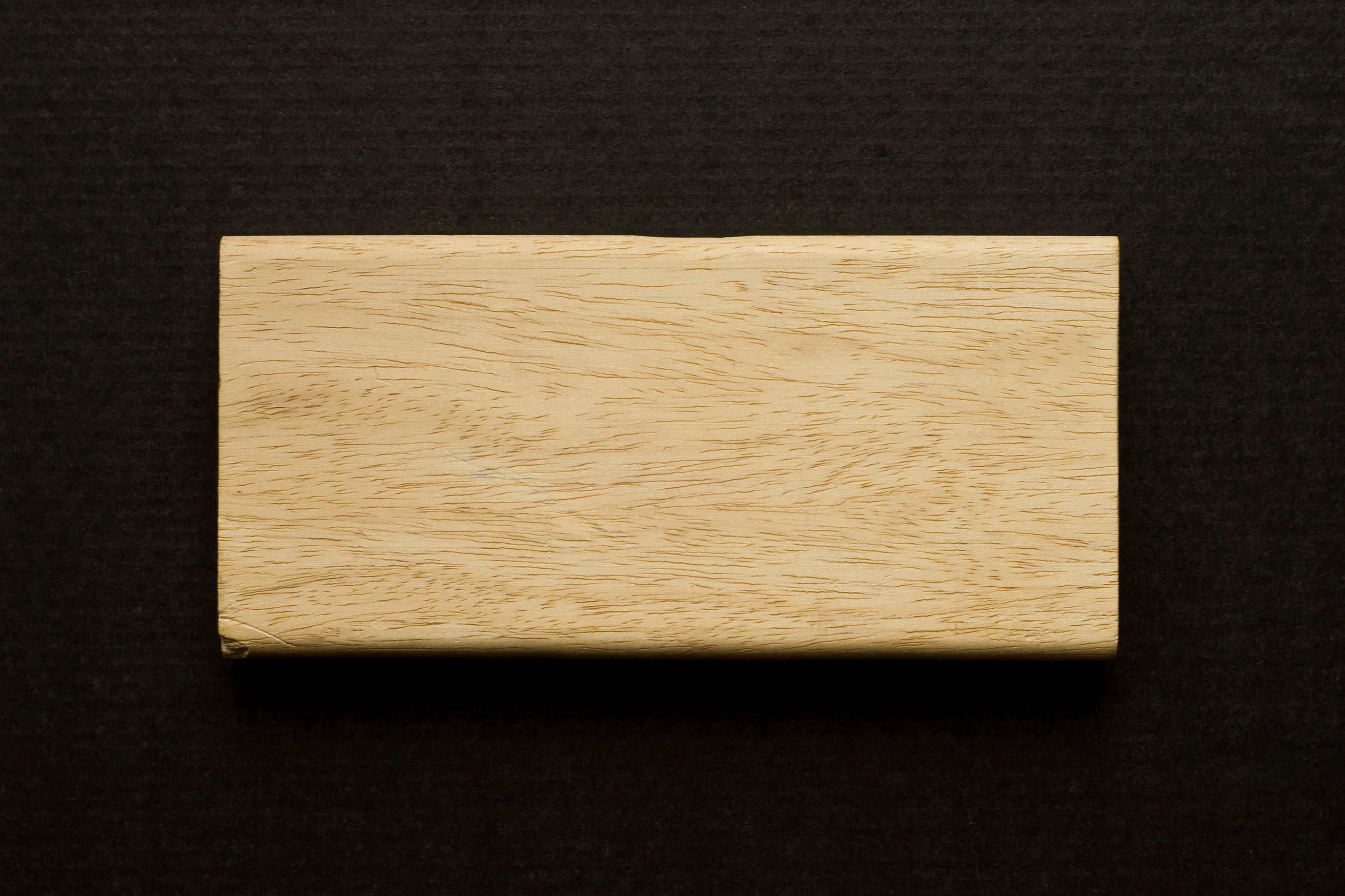 White mahogany (Khaya anthotheca) board.